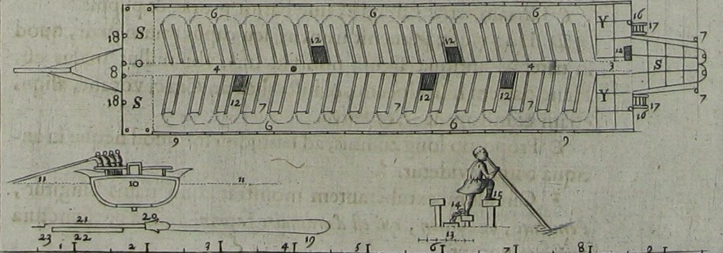 Detail of File:Morisot-Nova Triremis quam dicimus, Galere.jpeg.